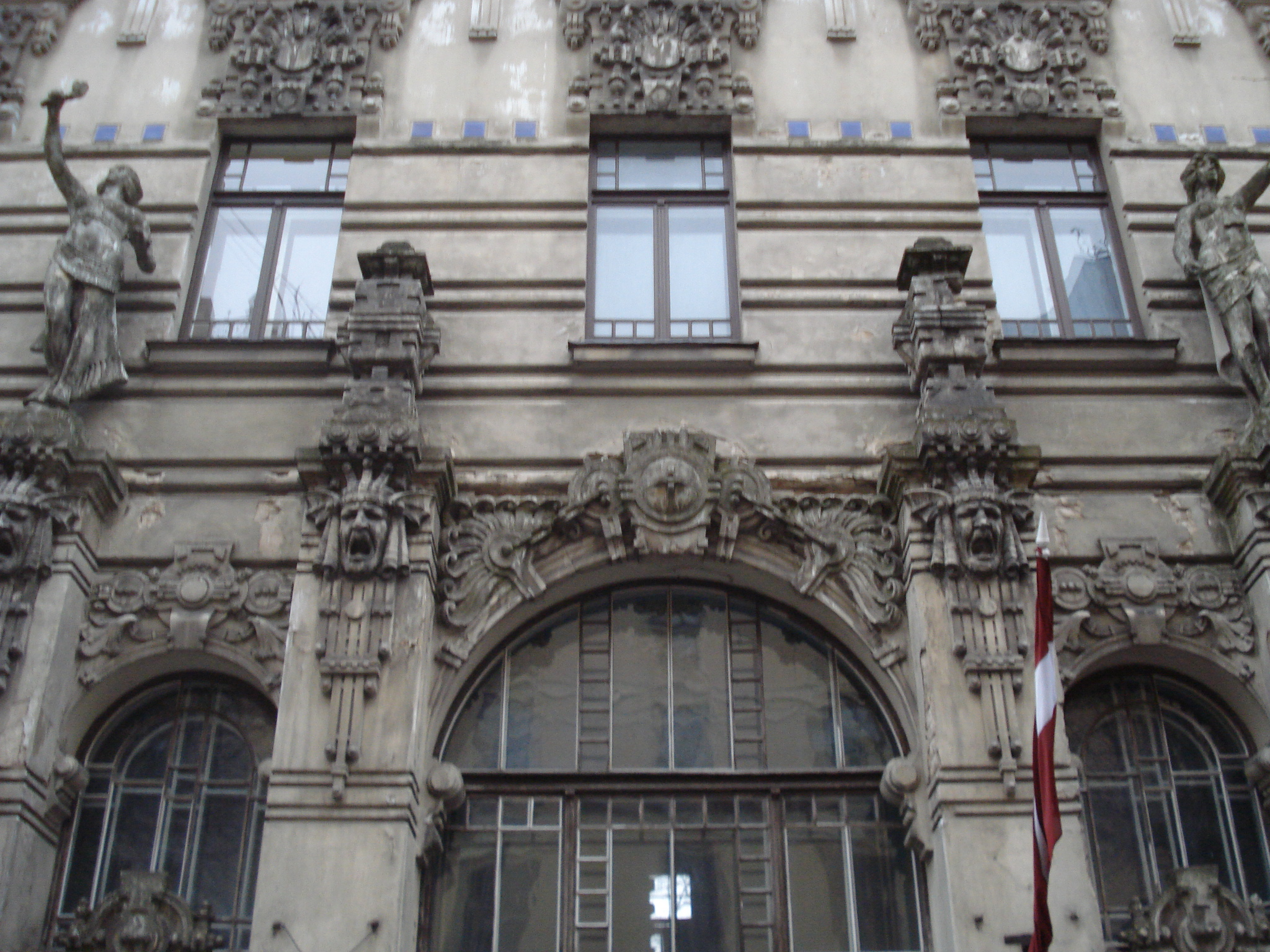 Art Nouveau House in Riga, Alberta ielā 2a. 1906. Architect Mihail Eisenstein. Facade detailed